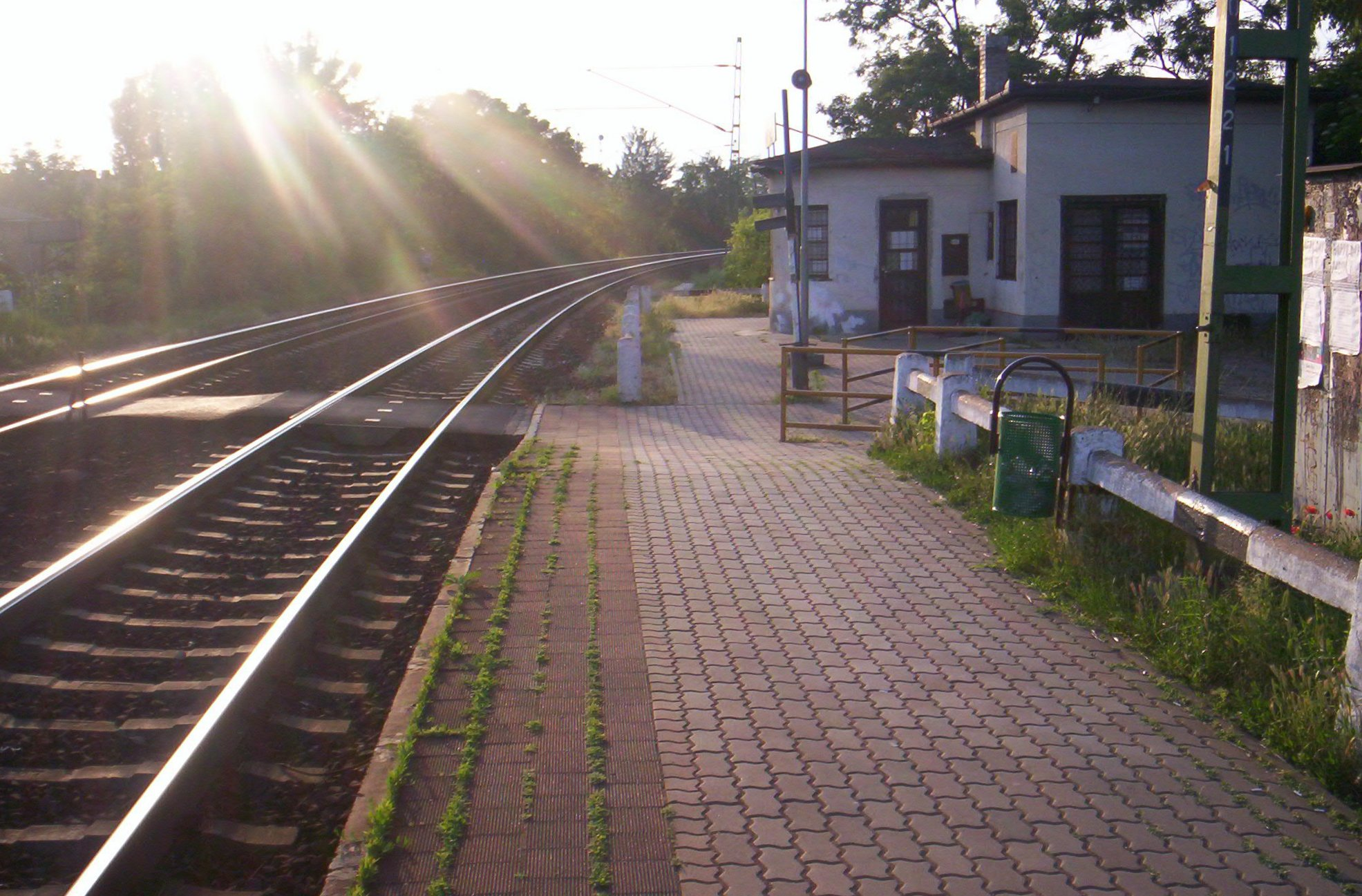 The train track at Ecser